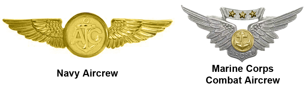 Image of Aircrew insignia used in the US Navy. For use in USN articles concerning awards.